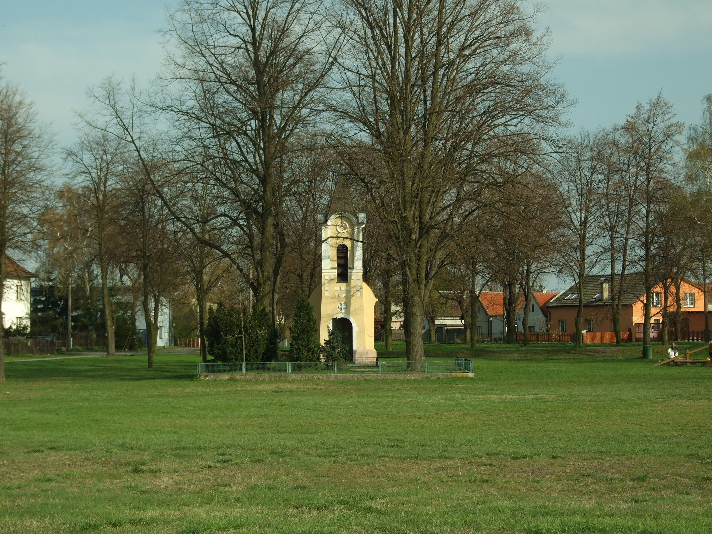 A small church in Malý Újezd village. Mělník District, Central Bohemian Region, CZ